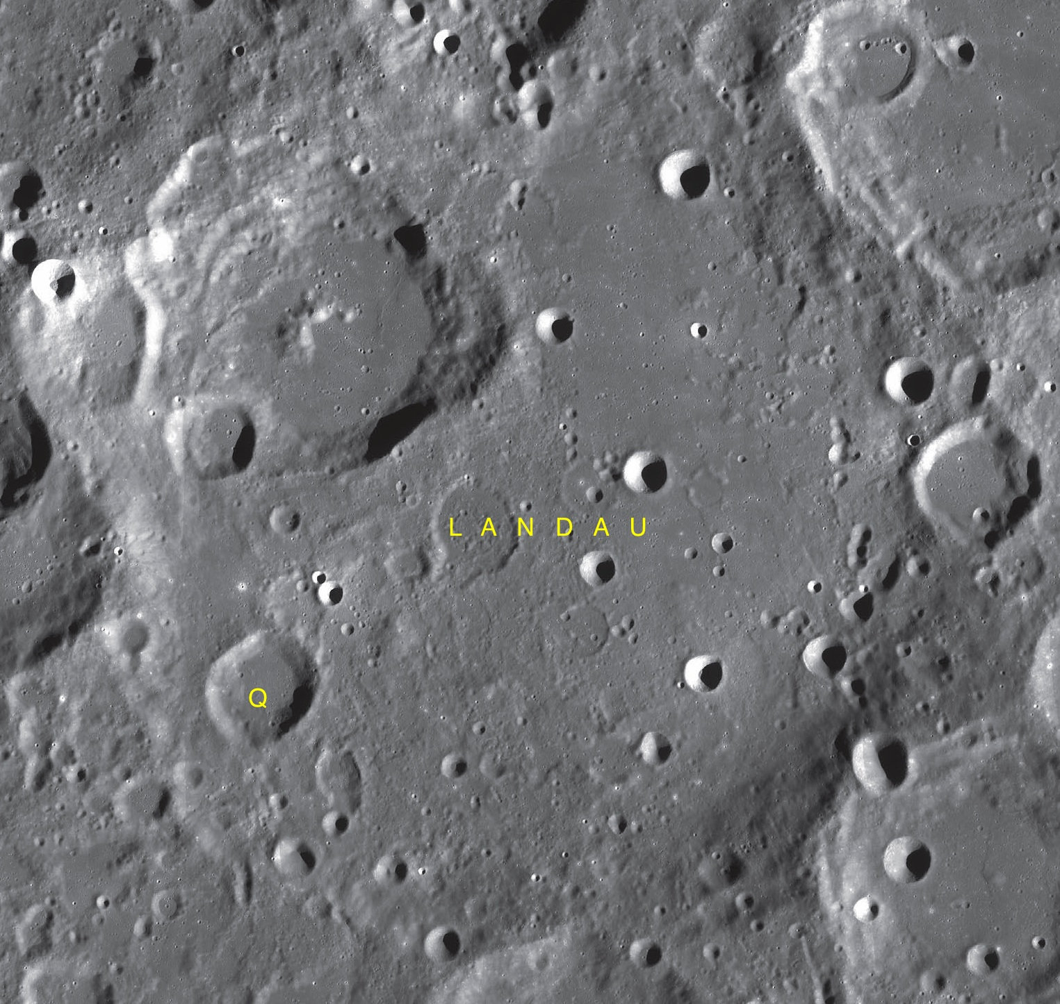 Part of the chart LAC-35 used for the presentation